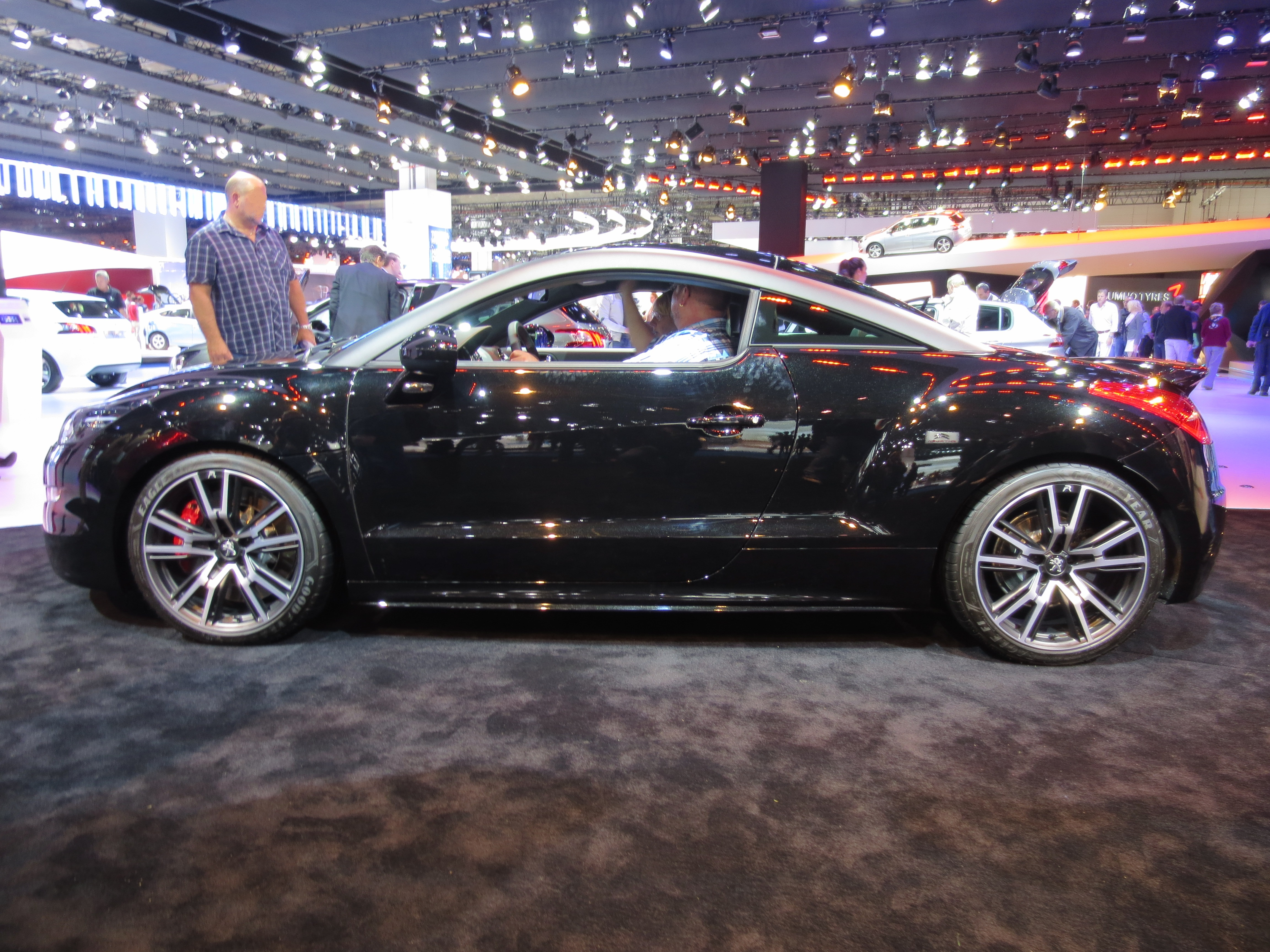 Subject: Peugeot RCZ-R Author: Luc106 Date:September 17th, 2013 Event: IAA 2013 Place/Country: Frankfurtermesse, Frankfurt am Main (Deutschland) I release all rights in the public domain.